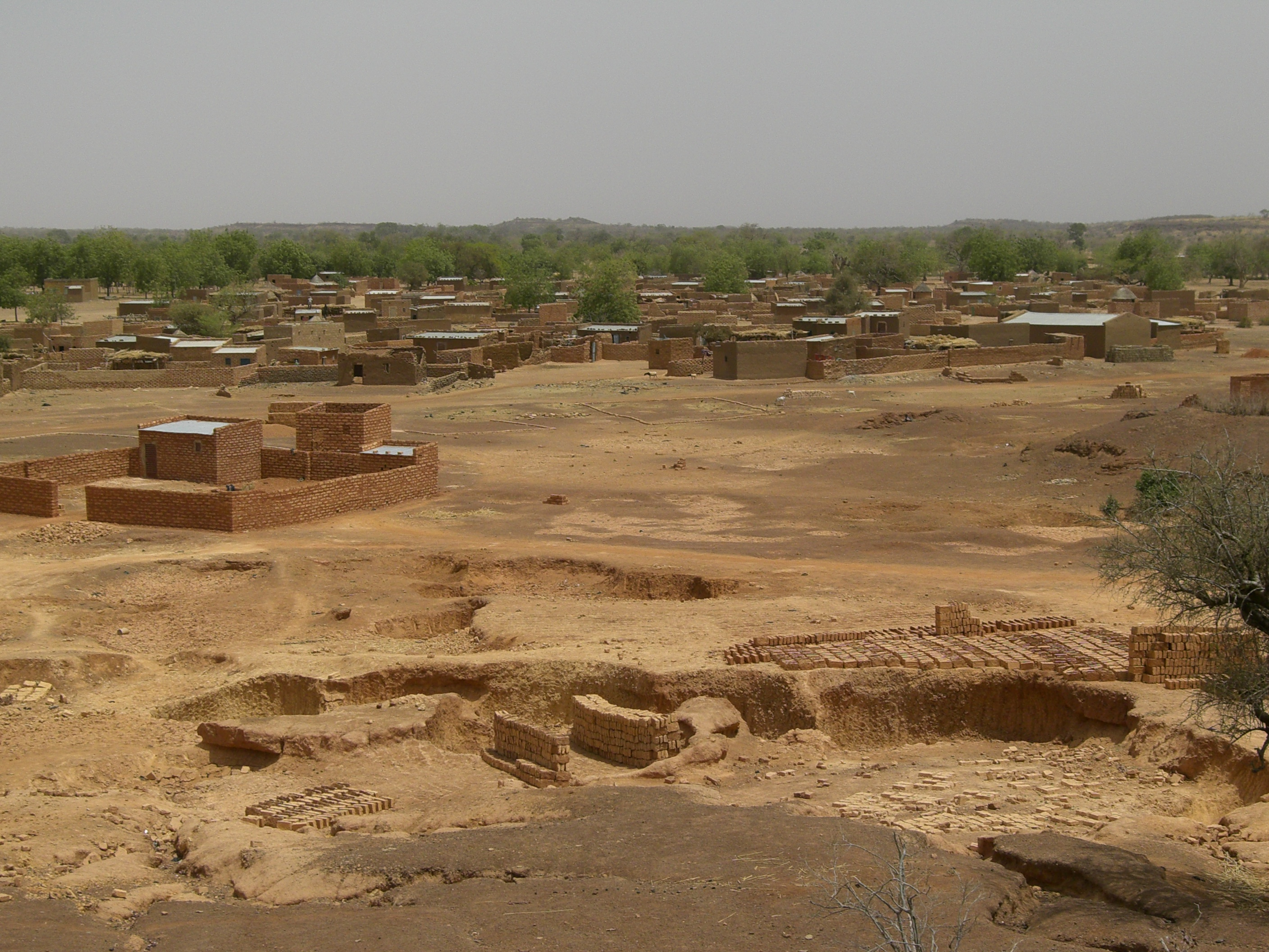 The city of Boulsa, in Namatenga Province, Centre-Nord Region, Burkina Faso, West Africa.